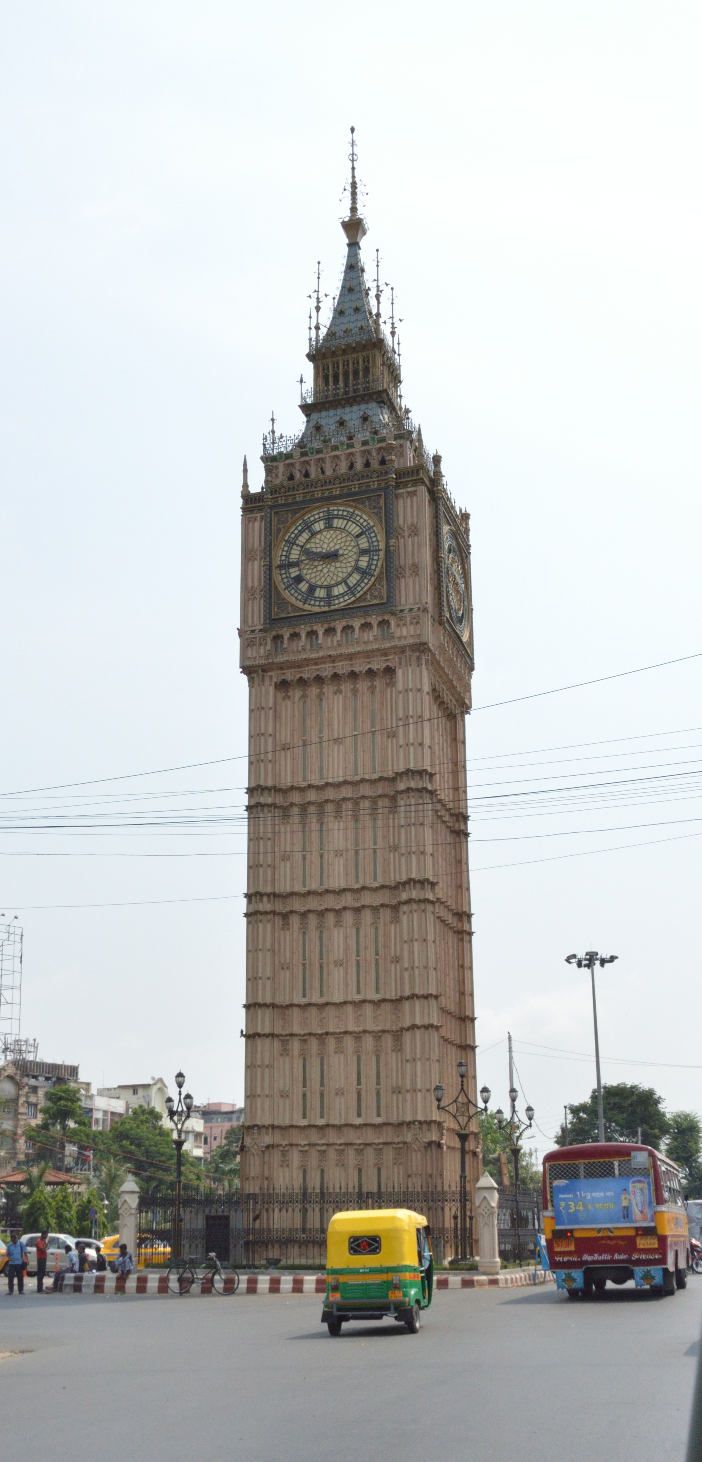 Photographed in Kolkata, West Bengal, India.